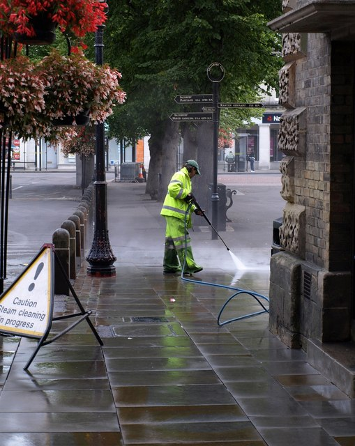 Cleaning the Market Place, Salisbury A workman jet washes the paving beside the Guildhall, at the southern side of the Market Place.